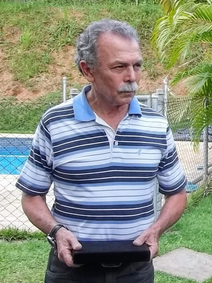 Ricardo Magnus Osório Galvão, Brazilian physicist